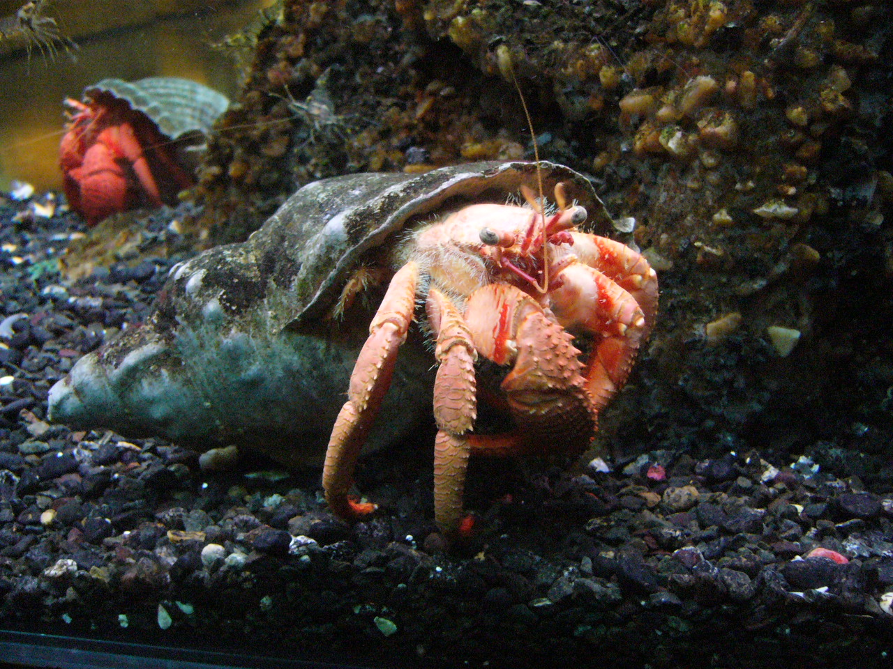 Hermit crab Pagurus sp. in Sala Maremagnum of Aquarium Finisterrae (House of the Fishes), in Corunna, Galicia, Spain.